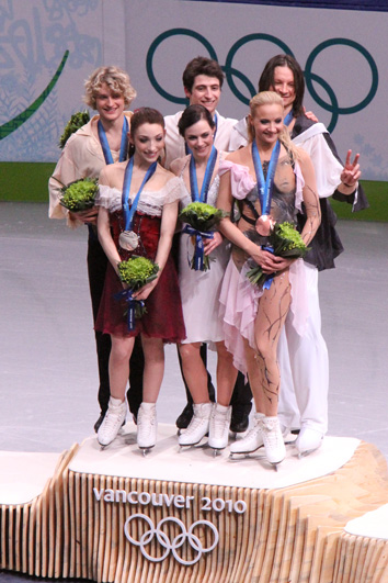 2010 Winter Olympic - Figure skating Dance podium - Meryl Davis / Charlie White(2st), Tessa Virtue / Scott Moir(1nd), Oksana Domnina / Maxim Shabalin (3rd).